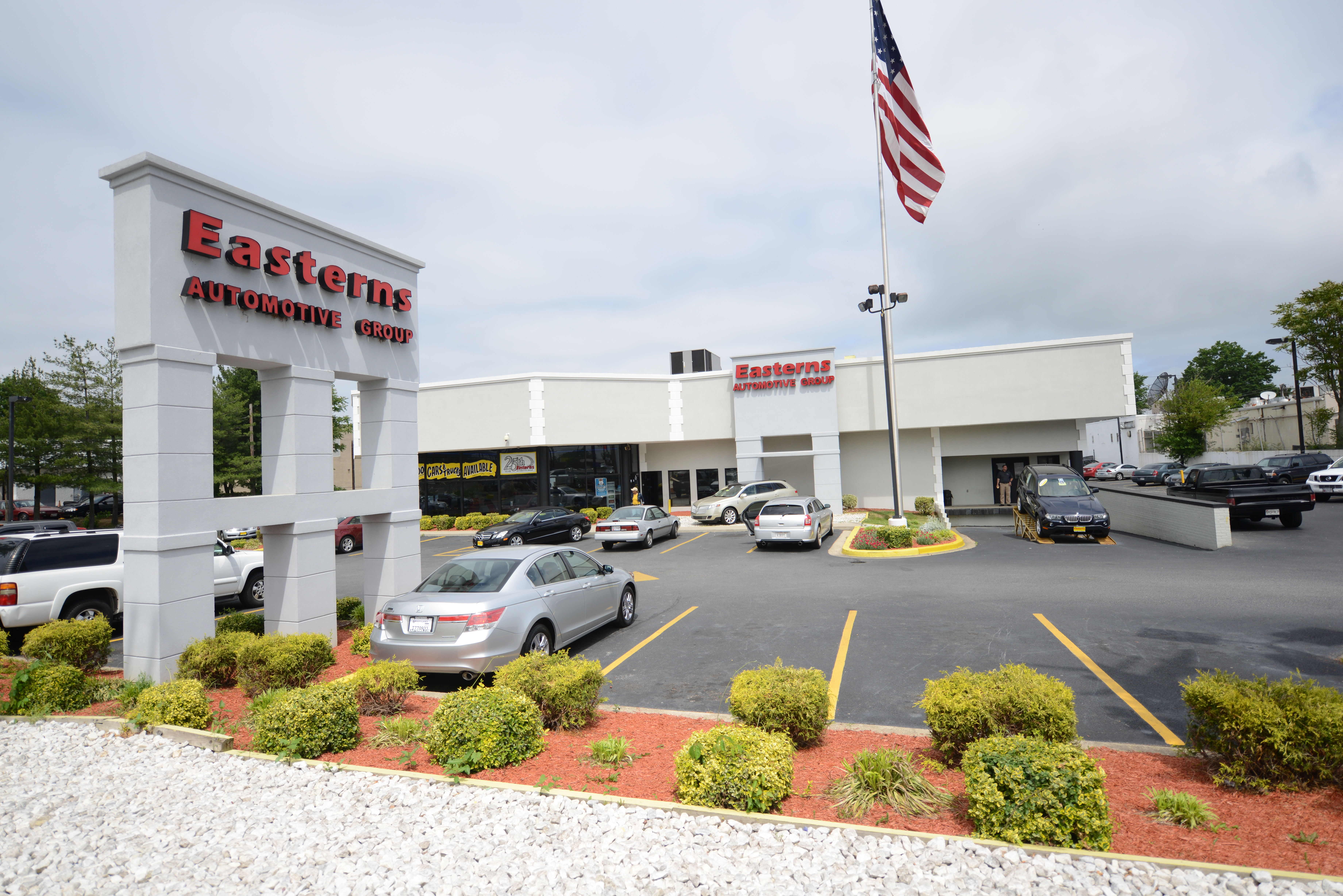 Easterns Automotive Group Store Front from the Temple Hills location